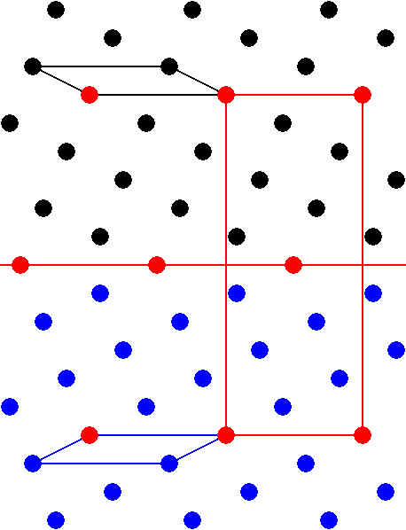 Example of a two-dimensional twin lattice. The black and blue lattices are two twin individuals. Their unit cells are represented as black and blue parallelograms, respectively. The twin element of symmetry is represented by the red line. The common nodes to both lattices by application of the twin symmetry operation are marked in red. The unit cell of the twin lattice is the red parallelogram (although it looks like it in this figure, the cell of the twin lattice is not centered).